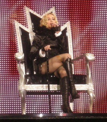 Madonna - Amsterdam ArenA - September 2, 2008